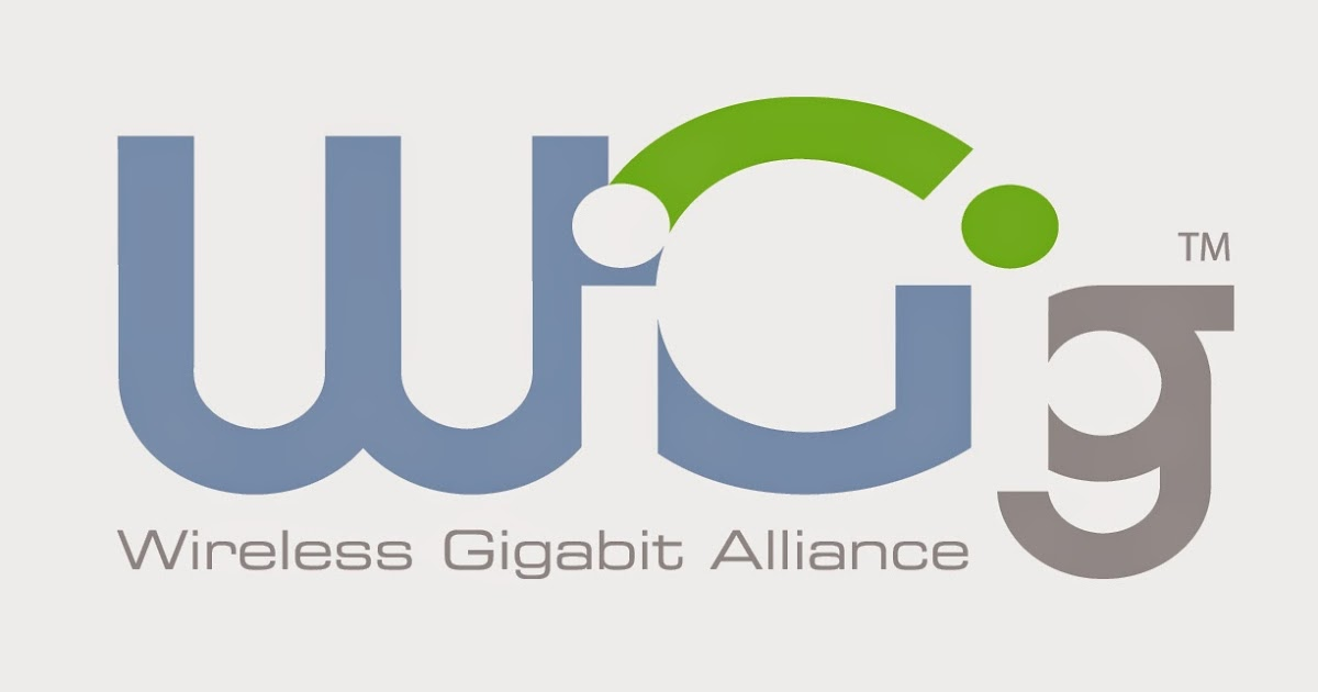 Wigig